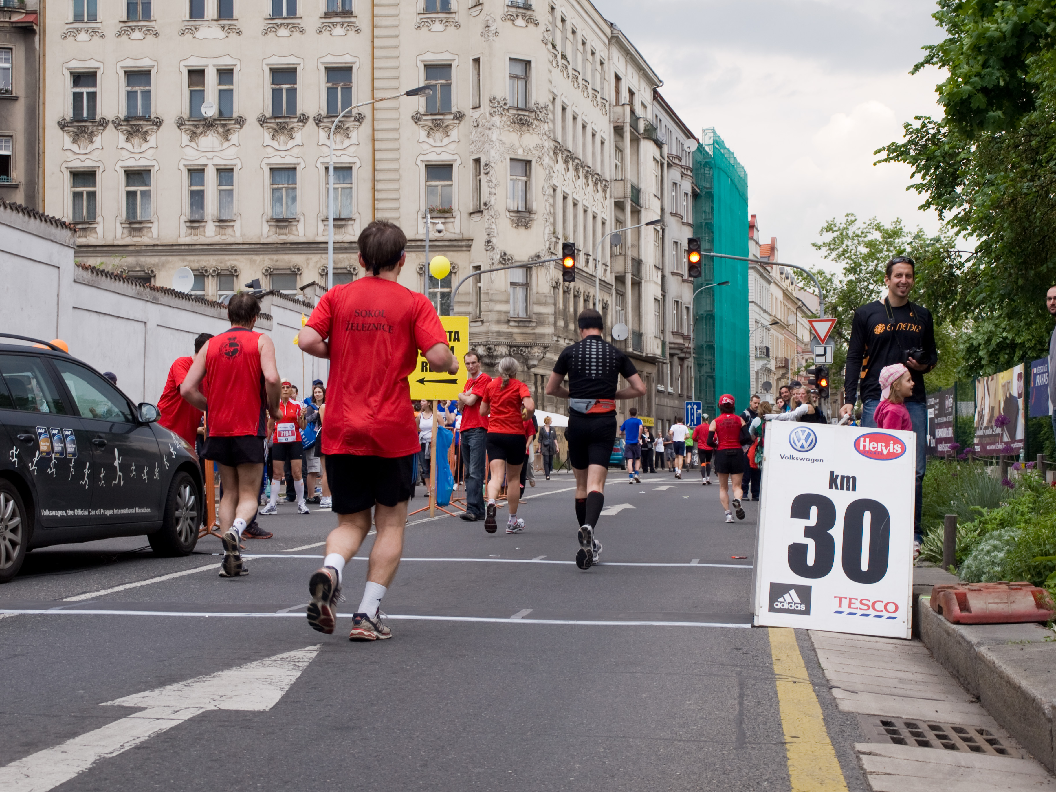 Hořejší nábřeží, cca 30 km, Prague International Marathon 2010